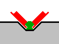 A diagram of the Translohr guide rail. Taken from Dutch Wikipedia [1] (TranslohrGeleiding.png). Public domain.